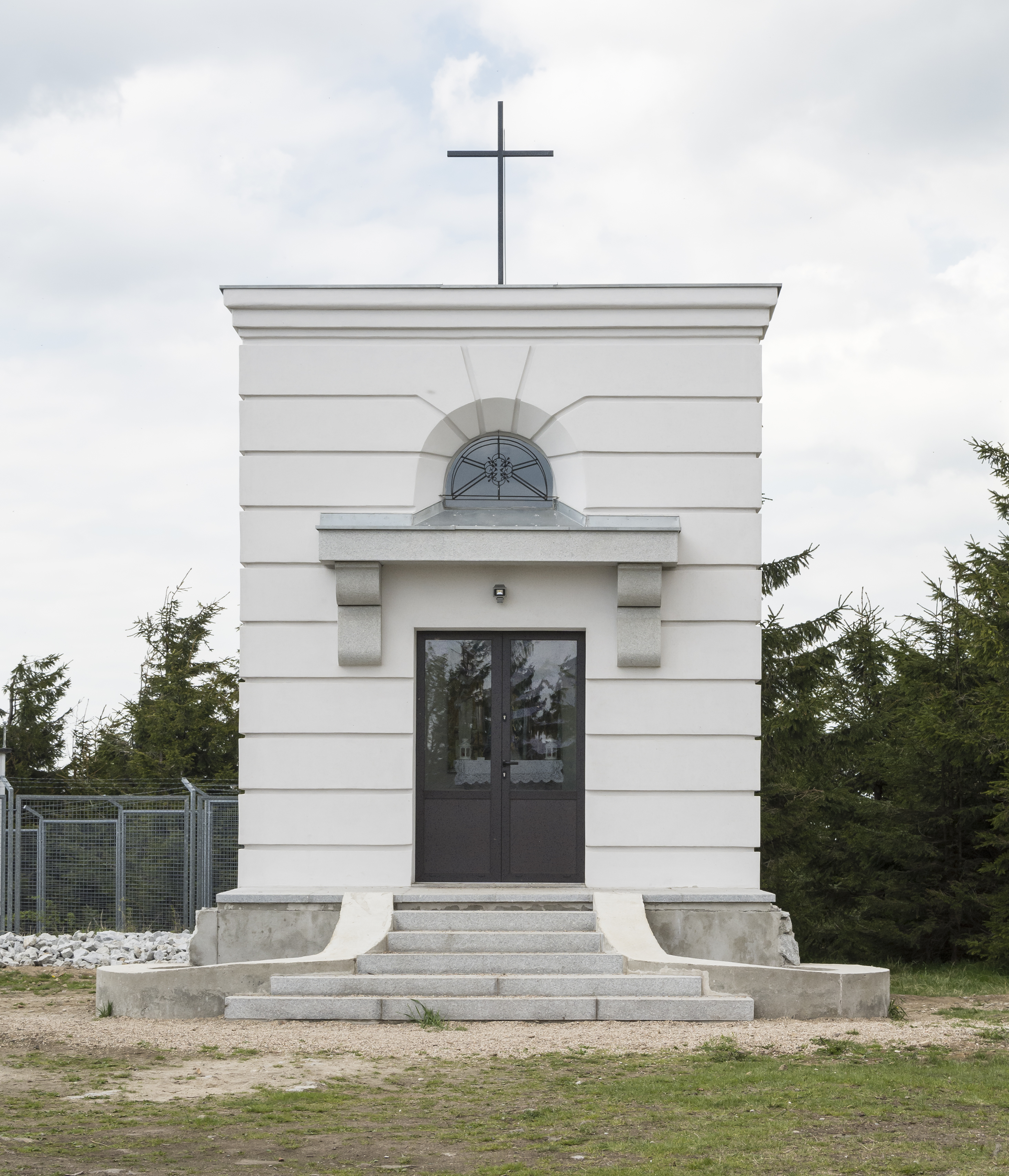 Chapel on Wielka Sowa